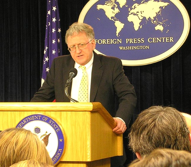 Robert G. Joseph, American diplomat. Joseph is United States Special Envoy for Nuclear Nonproliferation, and the former Under Secretary of State for Arms Control and International Security, a position he held at the time this photo was taken. In the photo, he is delivering a briefing on "Results of the IAEA Emergency Meeting on Iran - The U.S. View" in Washington, D.C.